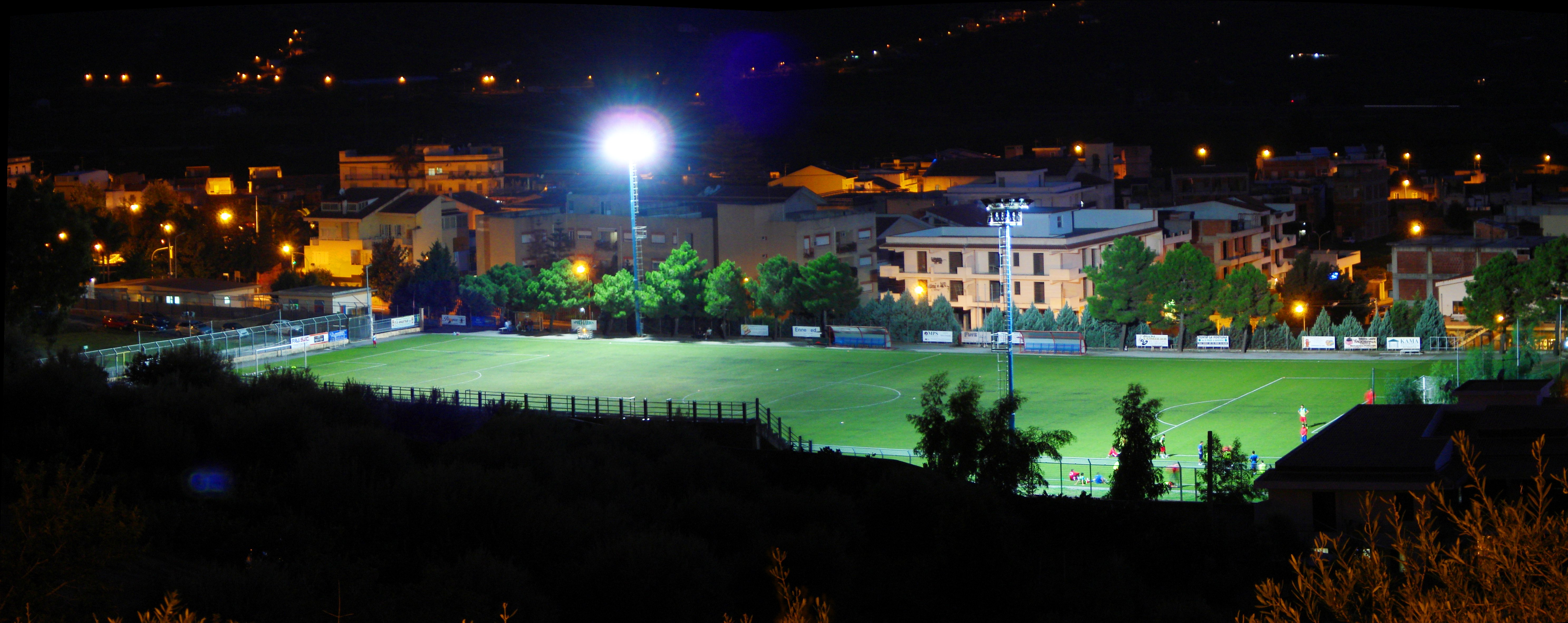 Night view of Torregrotta Stadium, Sicily, Italy.